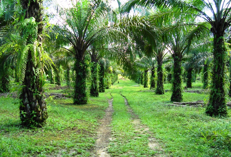 Traditional oil palm plantations that are managed and owned by ordinary people in Kampar regency, Riau.